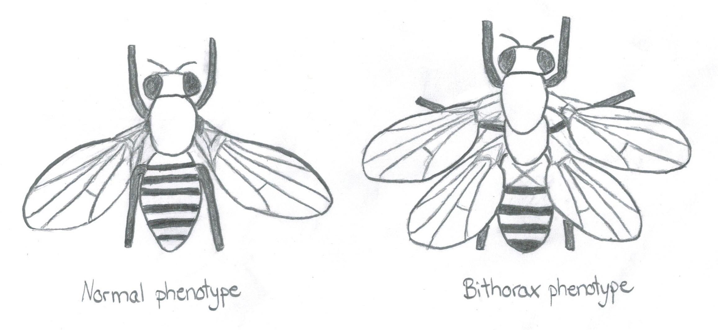 Normal and mutant bithorax Drosophila